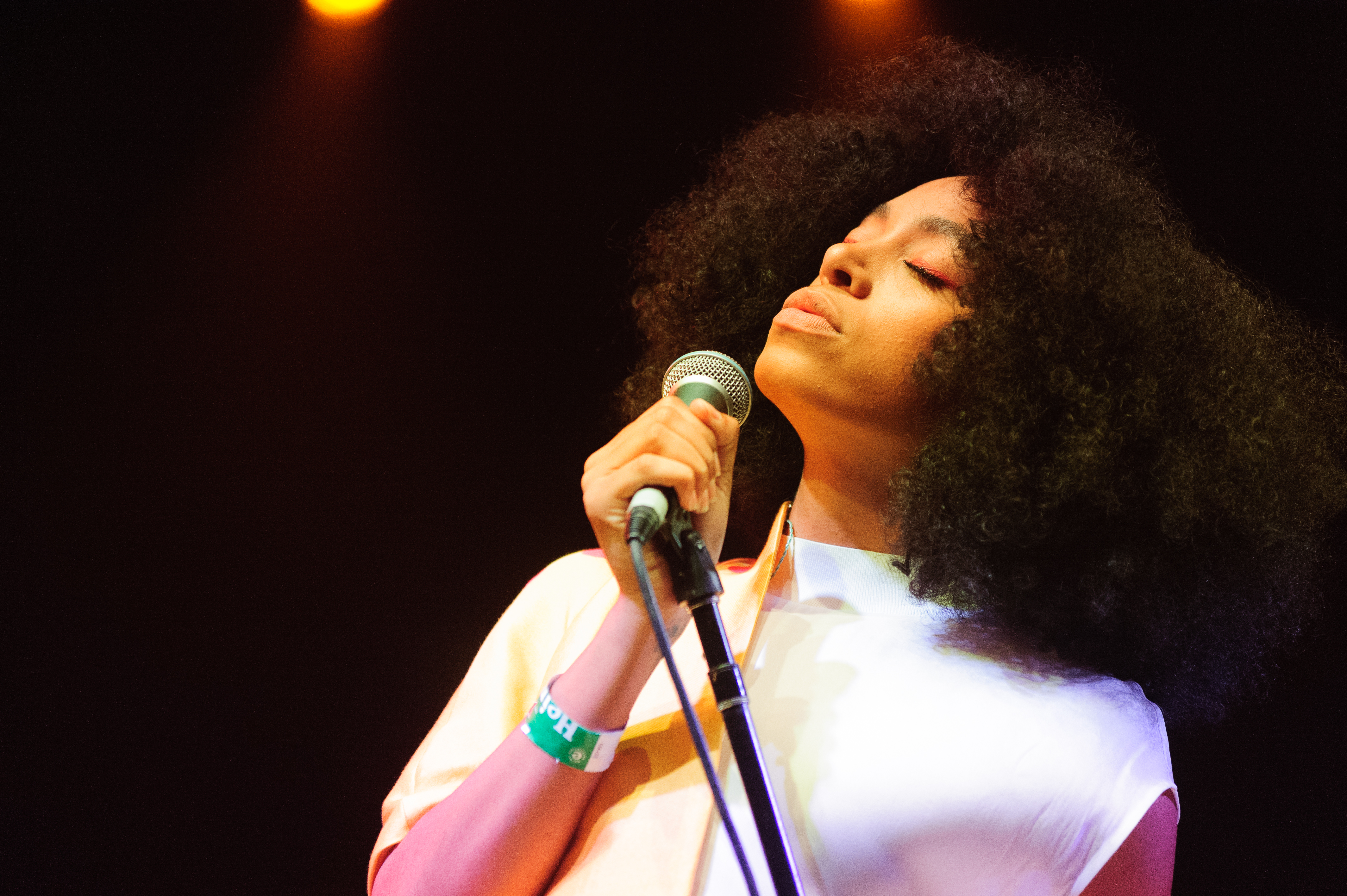 Solange performing at Coachella on April 19, 2014.